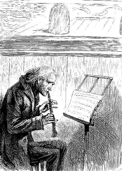 Little Dorrit, Frederick Dorrit, Mr William Dorrit's brother